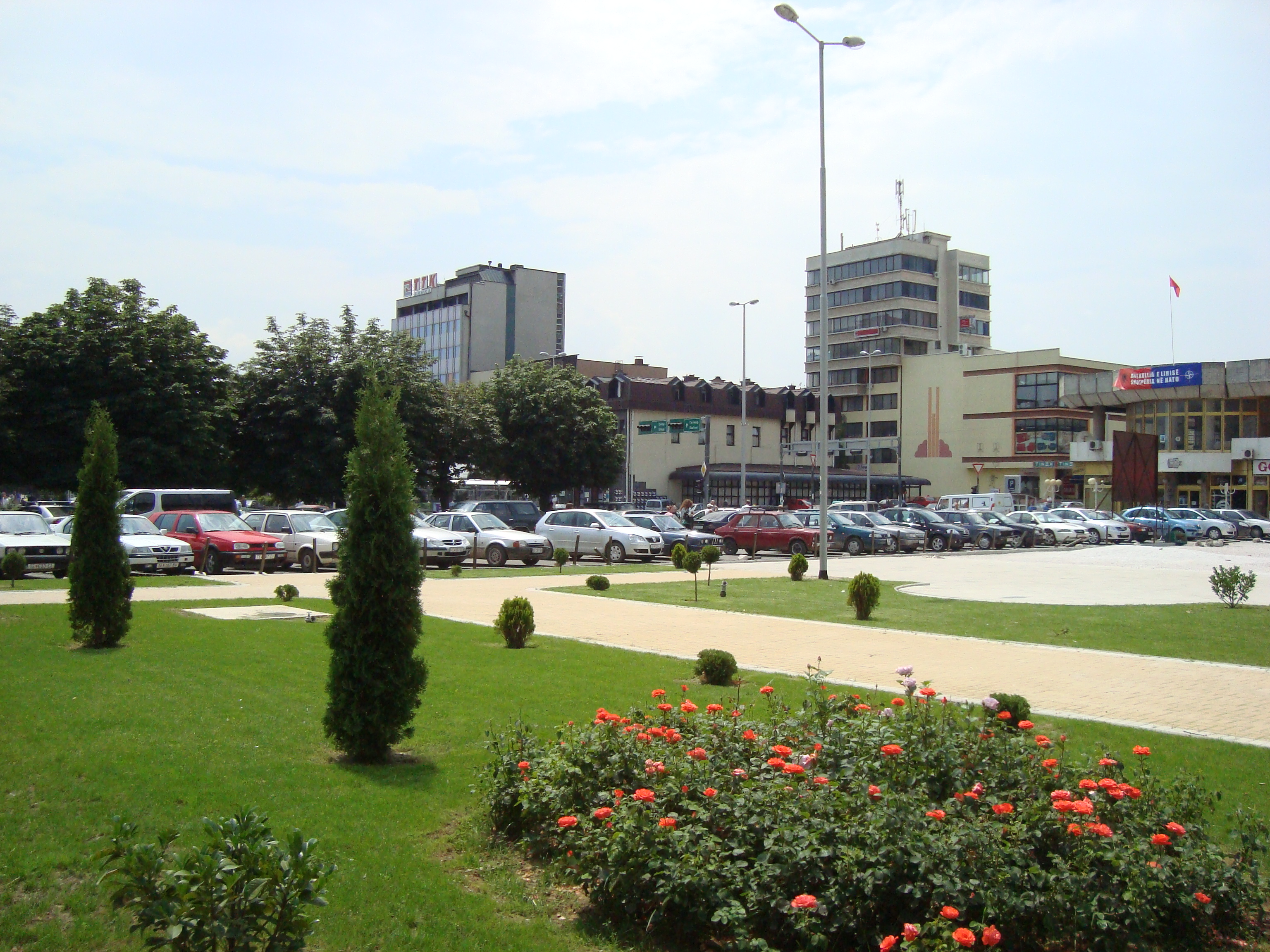 View of the hotel "Macedonia" from the city square in Tetovo, Macedonia.